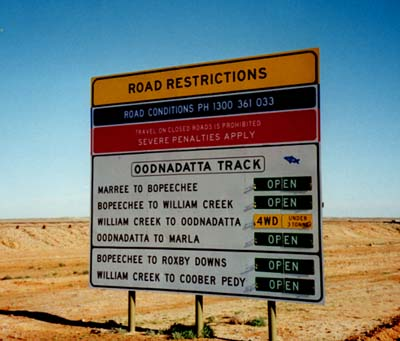 Oodnadatta track road restrictions